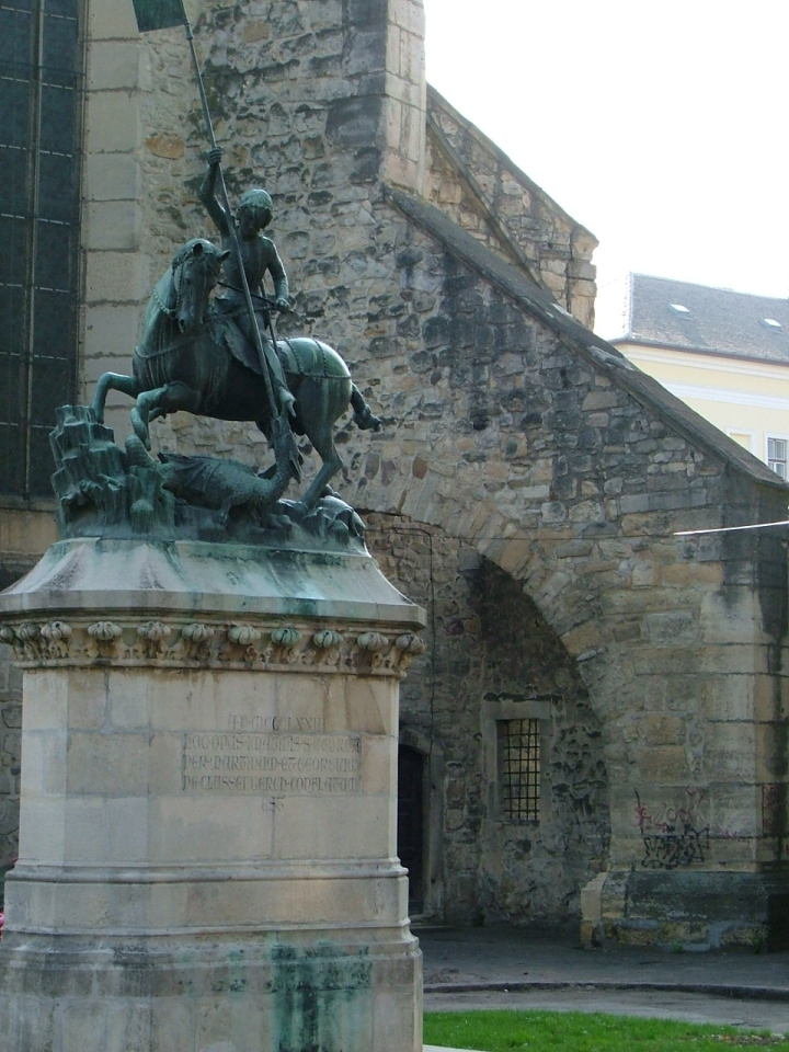 Saint George statue, Cluj-Napoca, Romania